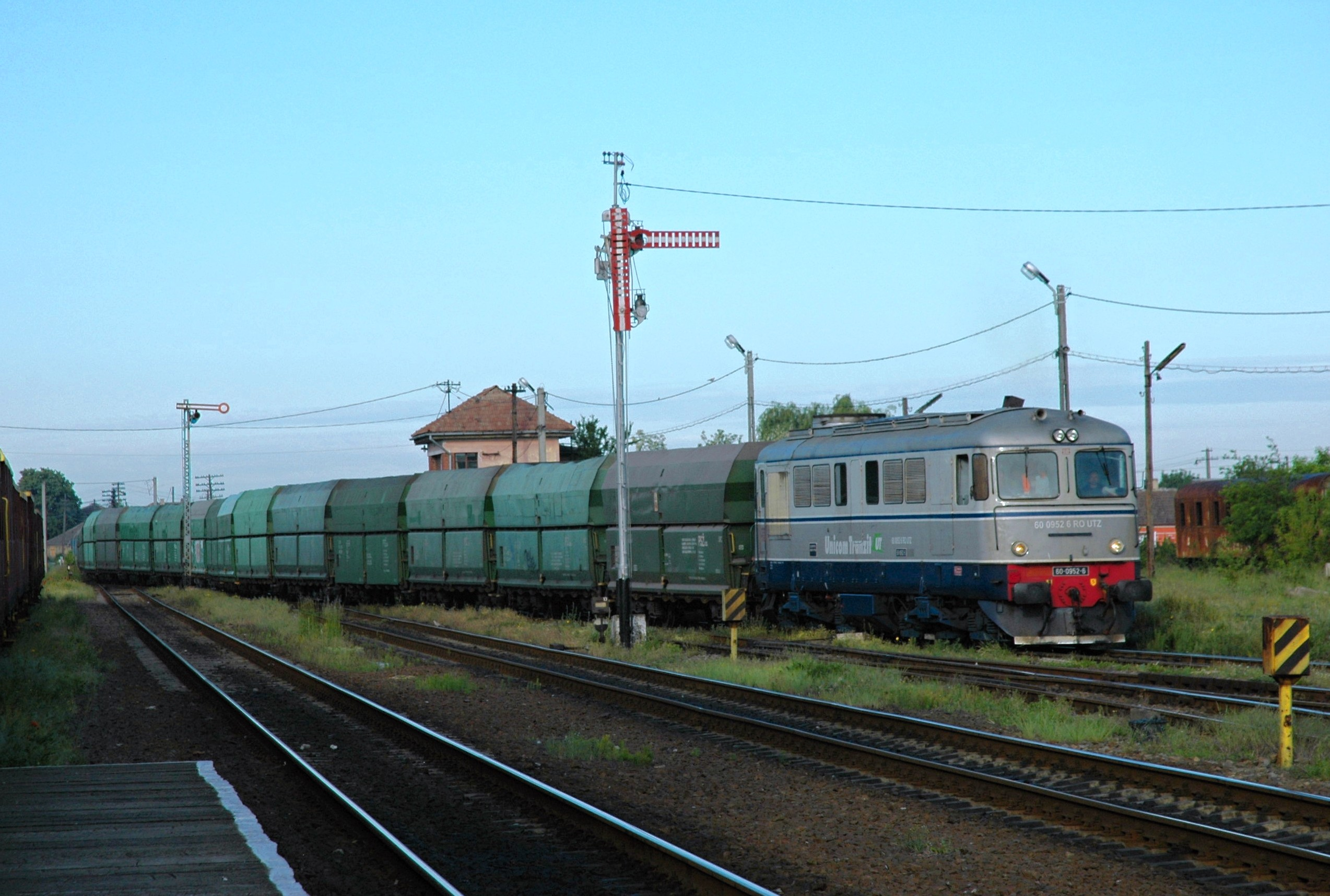 60-0952 of Unicom Tranzit + wagons of PSŽ; Valea lui Mihai station, Romania